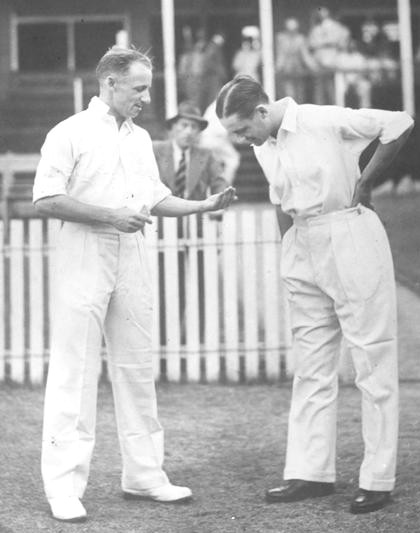 Image of Don Bradman and GO Allen tossing for innings, first Test at Brisbane 1936-37. From the collection of the National Library of Australia, accessed at: Public domain. This image is of Australian origin and is now in the public domain because its term of copyright has expired. According to the Australian Copyright Council (ACC), ACC Information Sheet G023v17 (Duration of copyright) (August 2014).3 Type of materialCopyright has expired if … A Photographs or other works published anonymously, under a pseudonym or the creator is unknown: taken or published prior to 1 January 1955BPhotographs (except A): taken prior to 1 January 1955CArtistic works (except A & B): the creator died before 1 January 1955DPublished editions1 (except A & B): first published more than 25 years agoECommonwealth, State or Territory owned2 photographs and engravings: taken or published more than 50 years ago 1 means the typographical arrangement and layout of a published work. eg. newsprint. 2 owned means where a government is the copyright owner as well as would have owned copyright but reached some other agreement with the creator. 3 Copyright Amendment (Disability Access and Other Measures) Bill 2017 (Australian Government) When using this template, please provide information of where the image was first published and who created it.